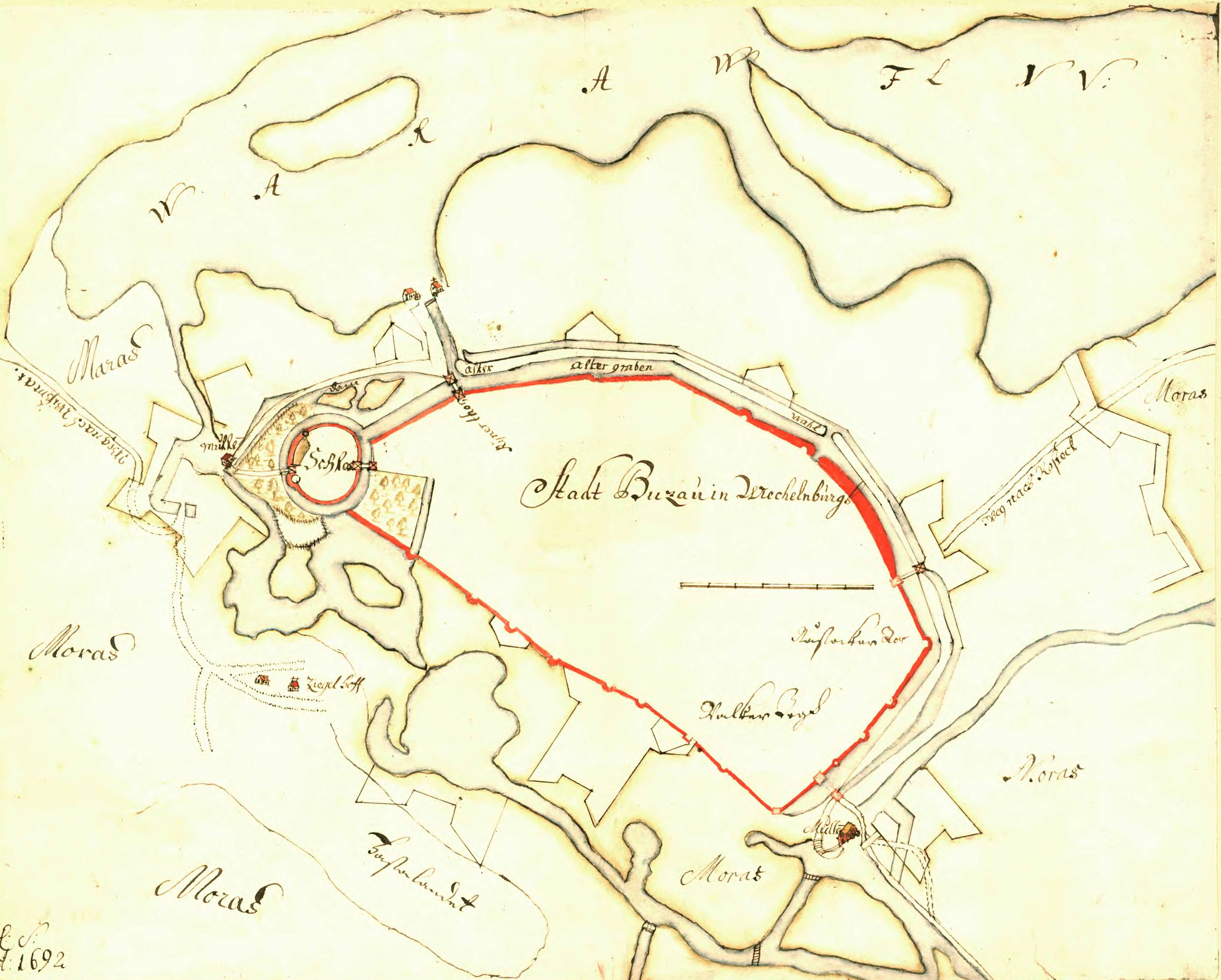 Citymap of Bützow